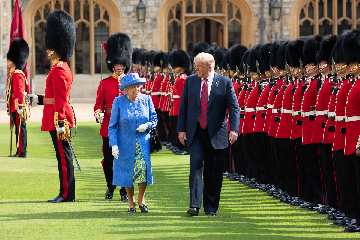 President Donald J. Trump and Her Majesty Queen Elizabeth II / July 13, 2018 (Official White House Photo by Andrea Hanks)